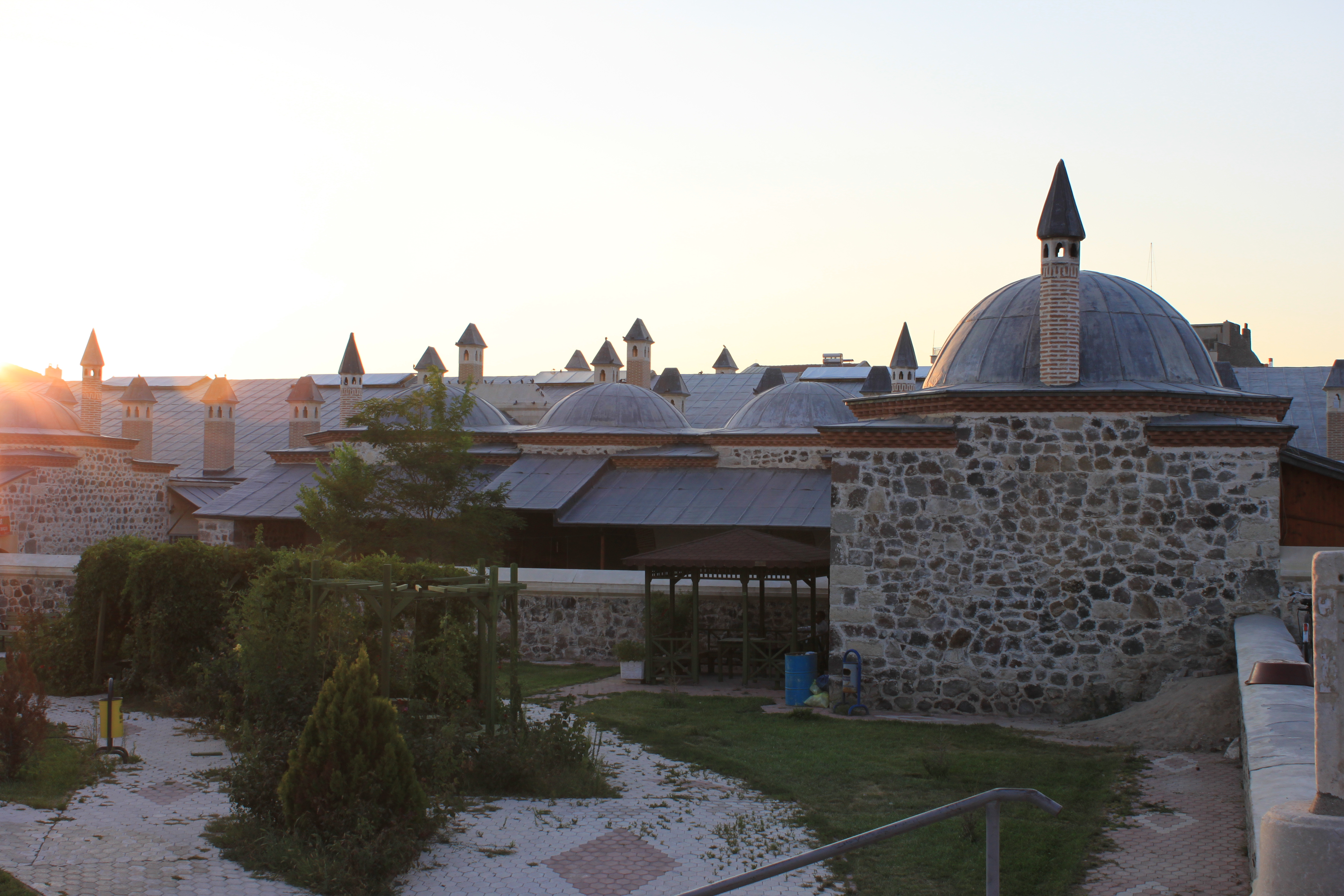 Caravansery complex in Karapınar — Konya Province, central Anatolia Turkey. Built in 1563 by Selimiye Külliyesi.